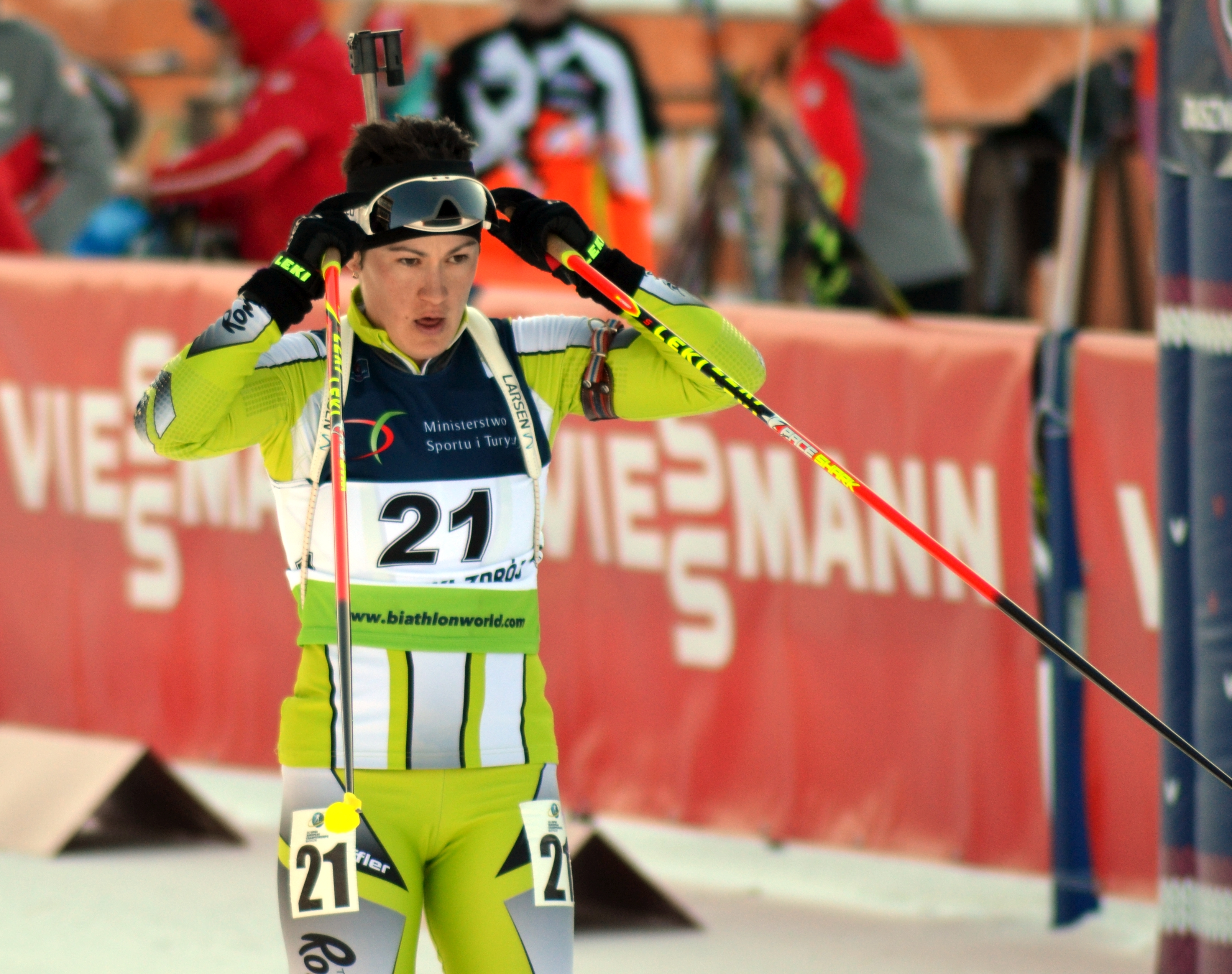 Open European Championships Biathlon 2017, Sprint Women's race, held on January 27th.